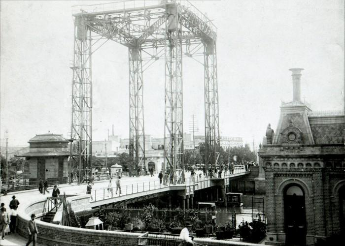 Old "Pueyrredón" drawbridge, built in 1903 and replaced in 1931. Buenos Aires, Argentina.